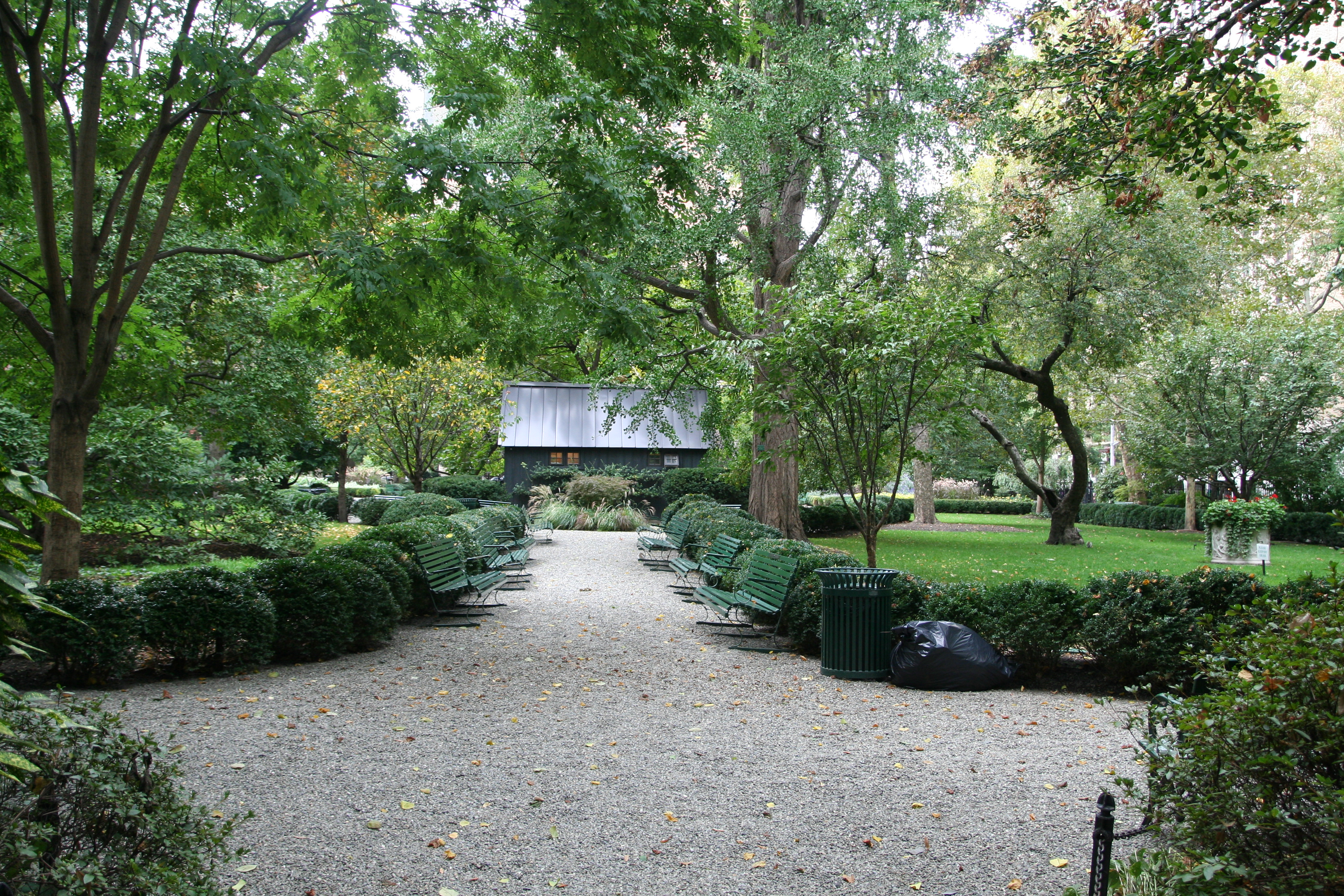 Gramercy Park, as seen looking west from Gramercy Park East.